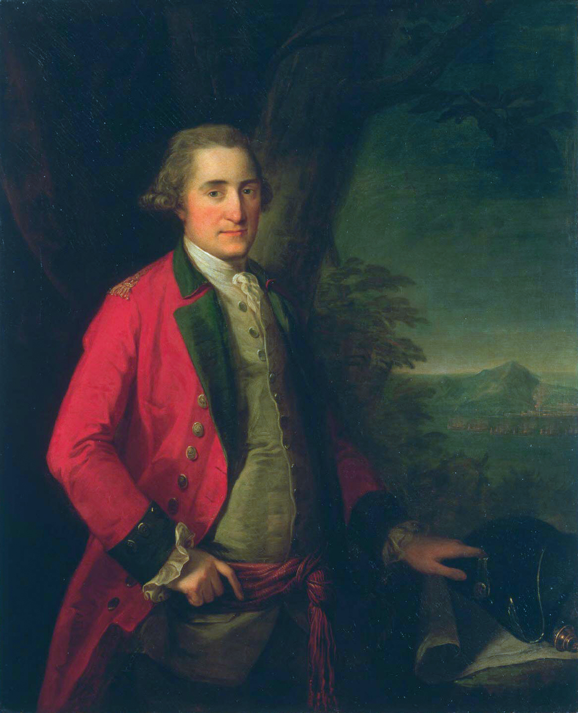 Lieutenant General James Cuninghame oil on canvas 183 x 121.9 cm ca 1775